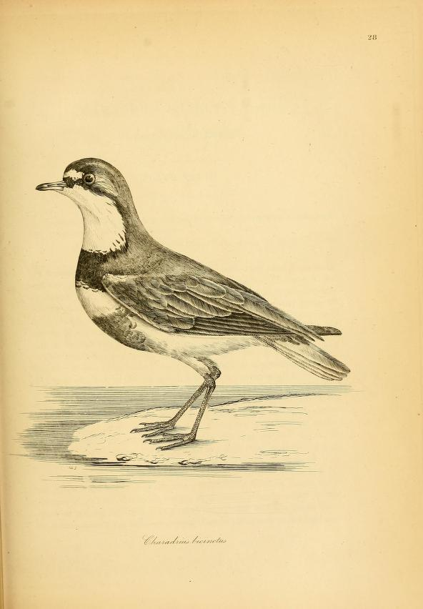 Double-banded Dotterel (Charadrius bicinctus), sketch, 1897